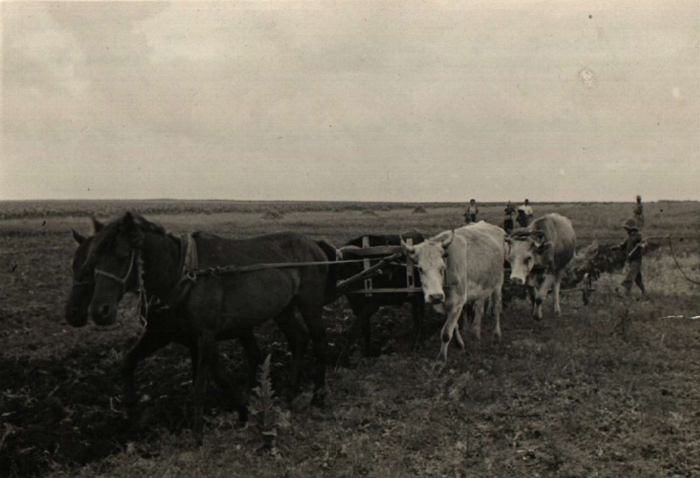 Plowing with cattle and horses in Bulgaria.